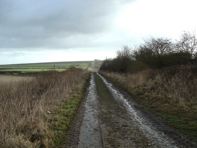 Roman Road - York to Bridlington - at West Field, Kilham, East Riding of Yorkshire, England.This is the alignment of the Roman road from York to Bridlington taken from west of the B1249 looking east.